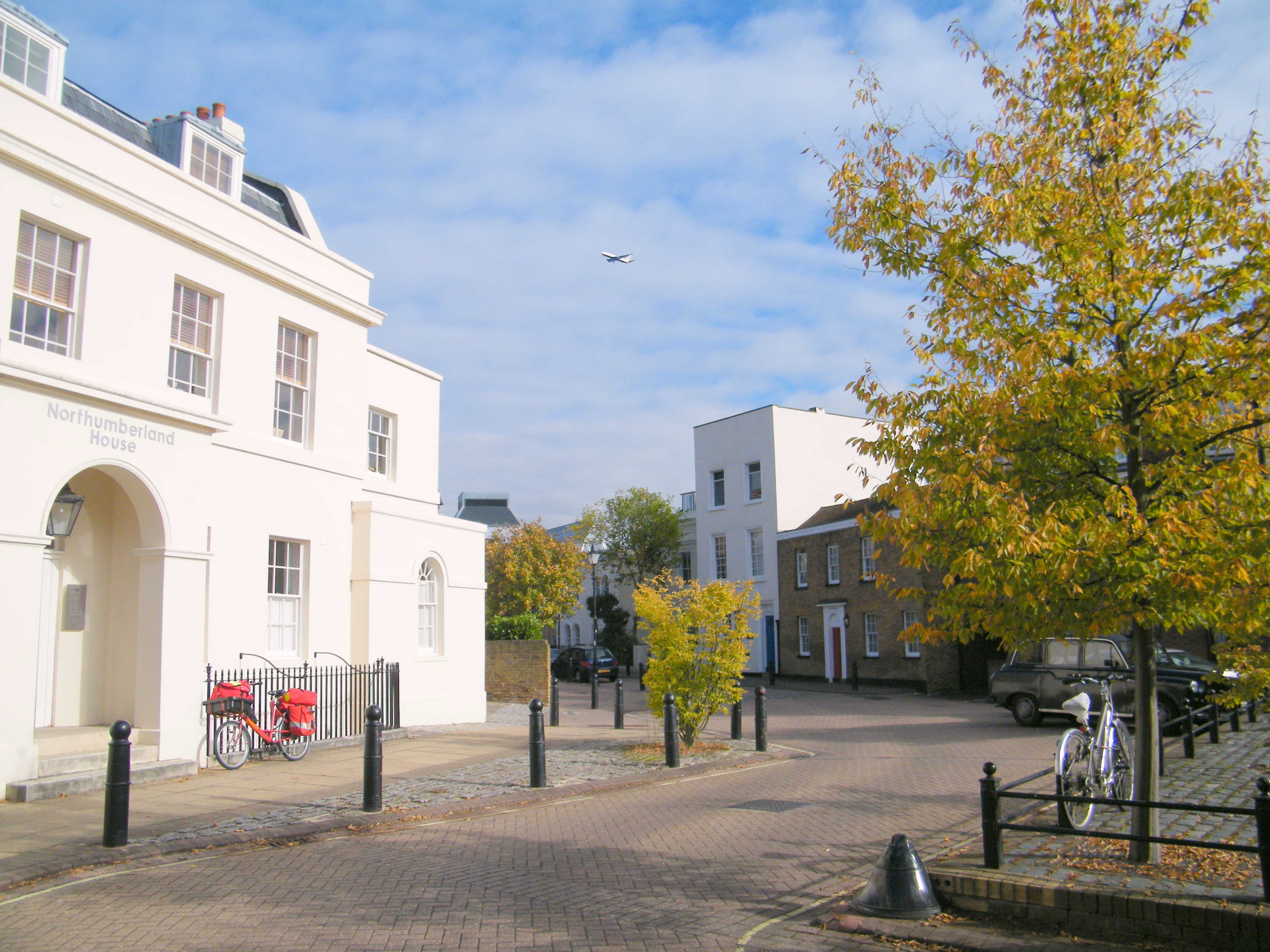 Garner & Hancock, Lower Square in Old Isleworth